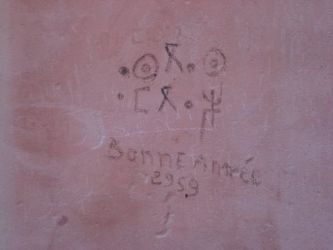 It is a graffiti on a wall written in Berber (Tifinagh alphabet): aseggas ameggaz "Happy (new) year" and in French Bonne Année 2959 "Happy 2959". The date refers to the so-called "Shoshenq era" = 2009 C.E. (since the photo was taken on 2008 eve, this is a mistake).